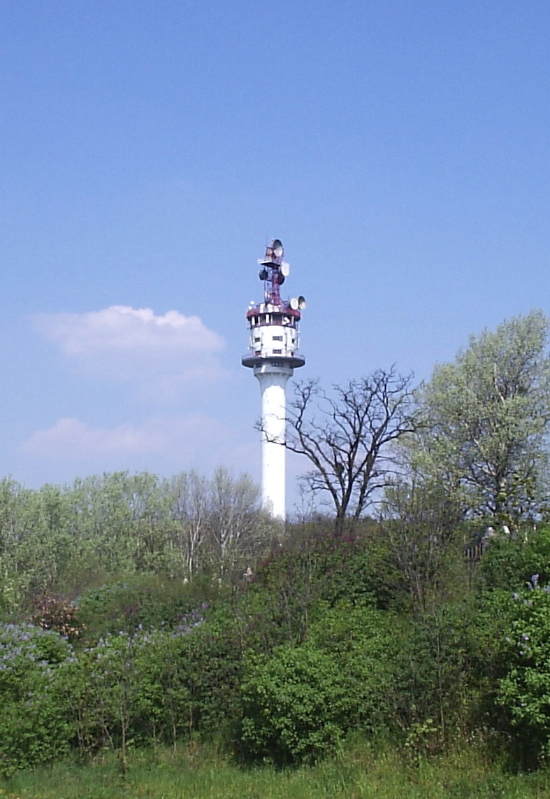 Żerków, Poland